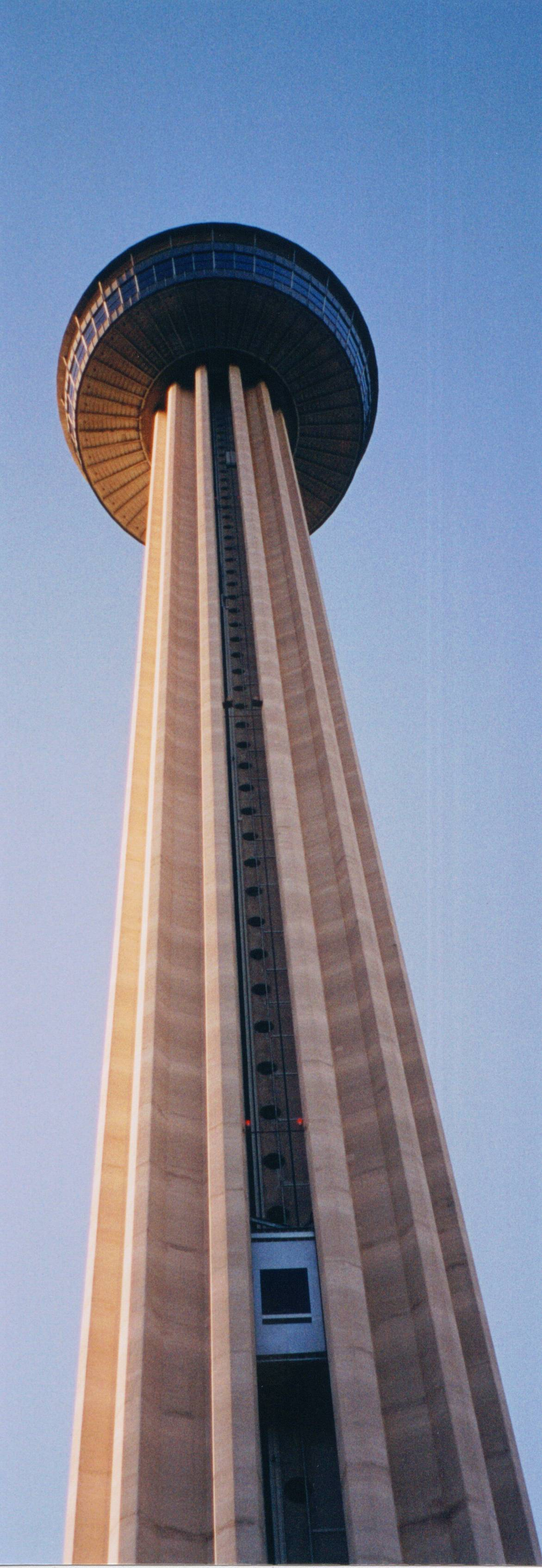 I took this photo myself in 2003. It shows the elevator of the Tower of the Americas in San Antonio, from the building's exterior.